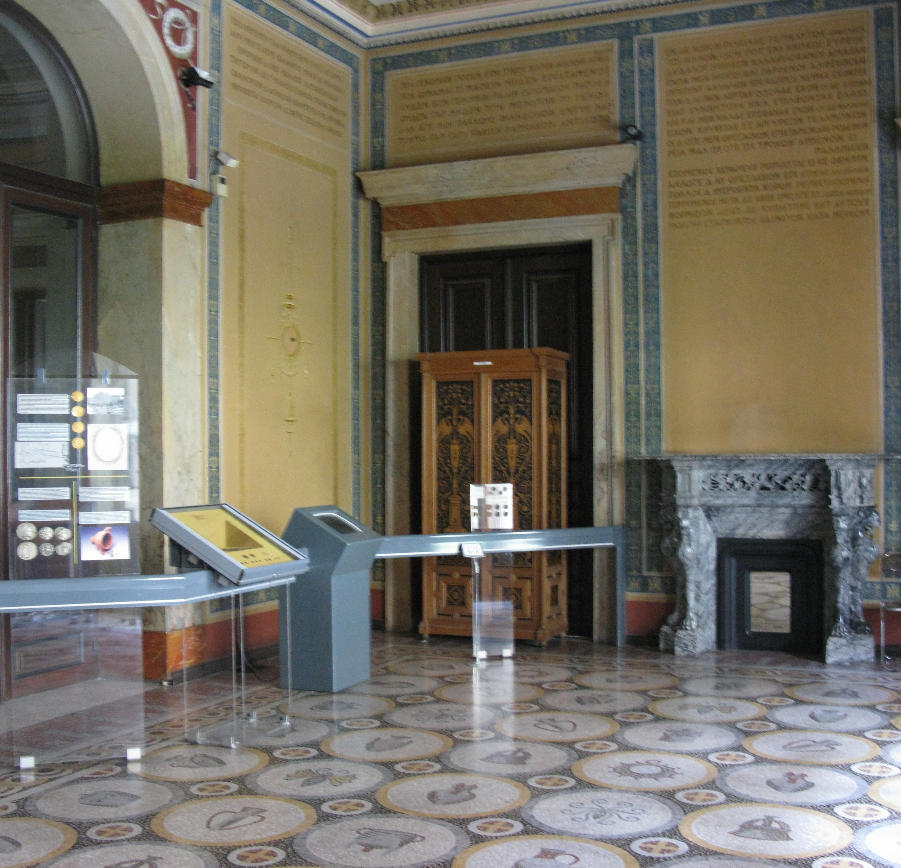 Numismatics Museum in Athens, Greece.